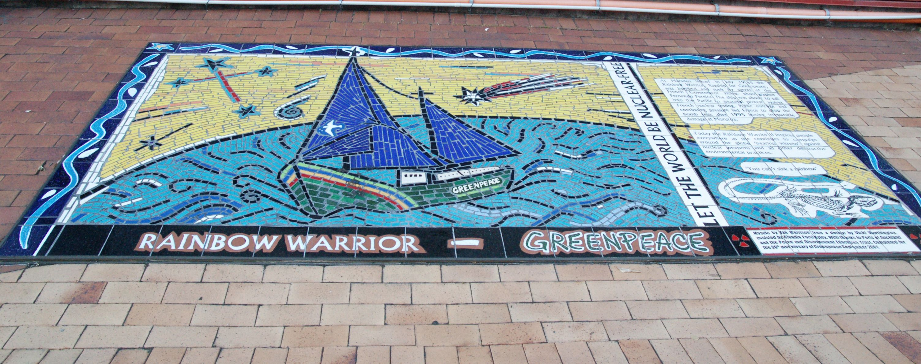 A memorial mosaic in the harbor of Auckland for the Rainbow Warrior. Source: own work Date: 6th of march 2007 Author:Arjan Hoogendoorn, me